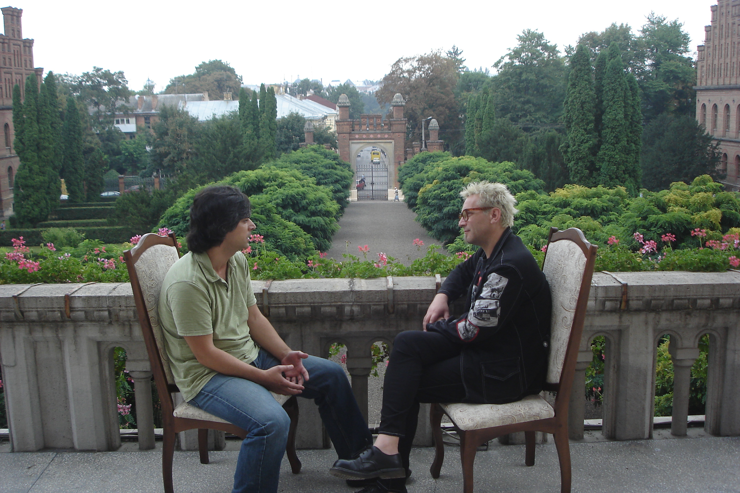 Oleksandr Volodymyrovych Boichenko interviews Russian film director Eugene Gorin on the territory of Chernivtsi University